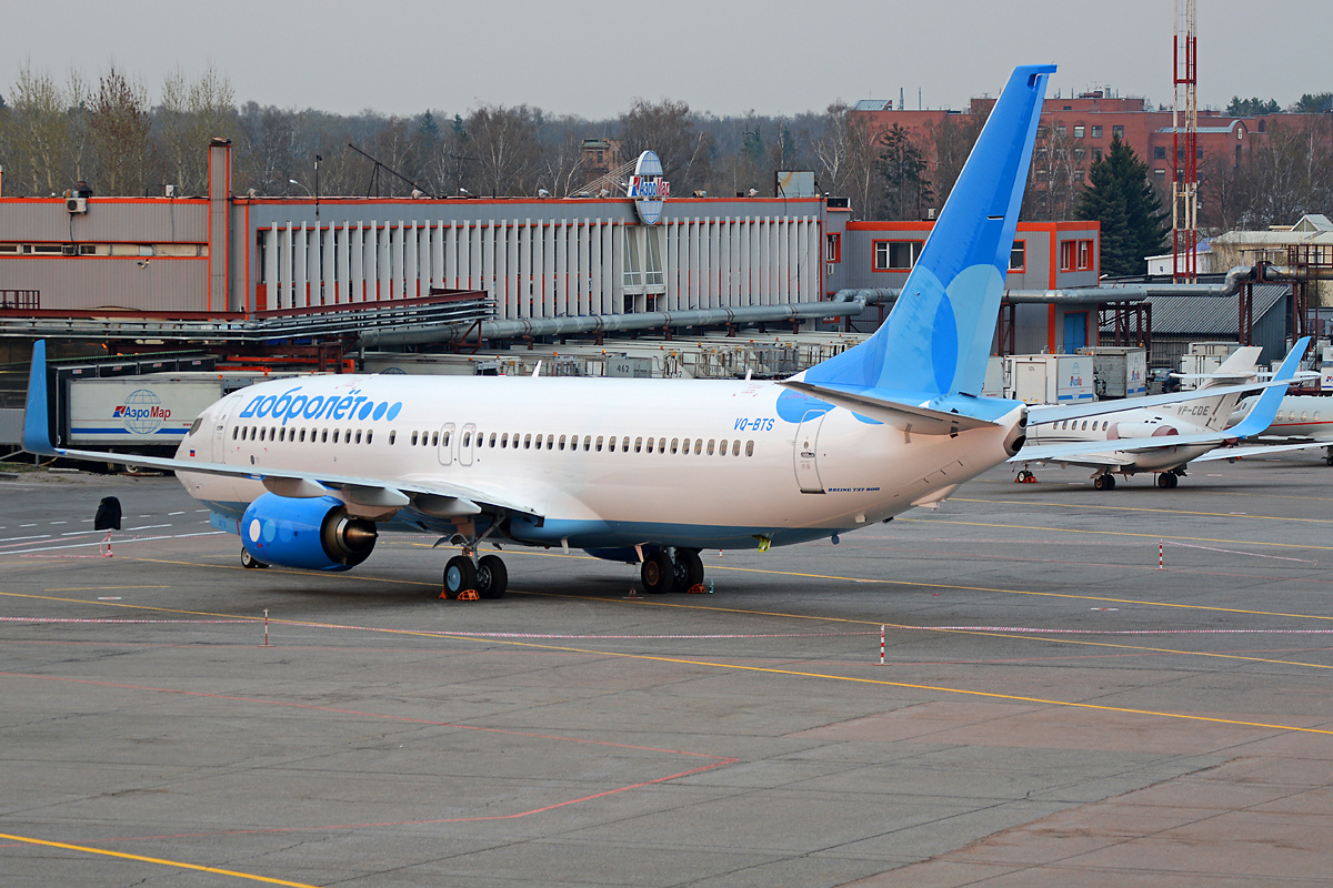 Dobrolet Boeing 737-800 at Sheremetyevo International Airport